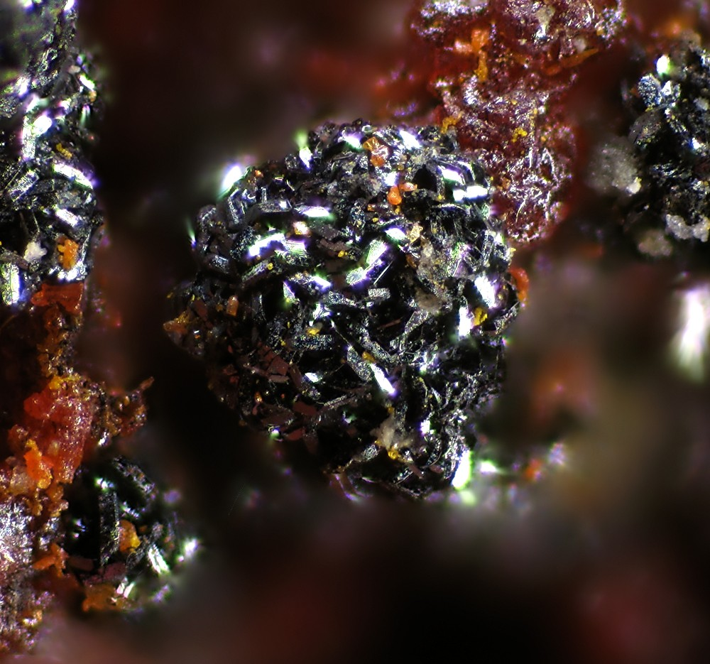 Vrbaite Locality: Allchar (Alsar), Roszdan, Republic of Macedonia (Locality at ) Picture width 0.8 mm. Collection and photograph Christian Rewitzer